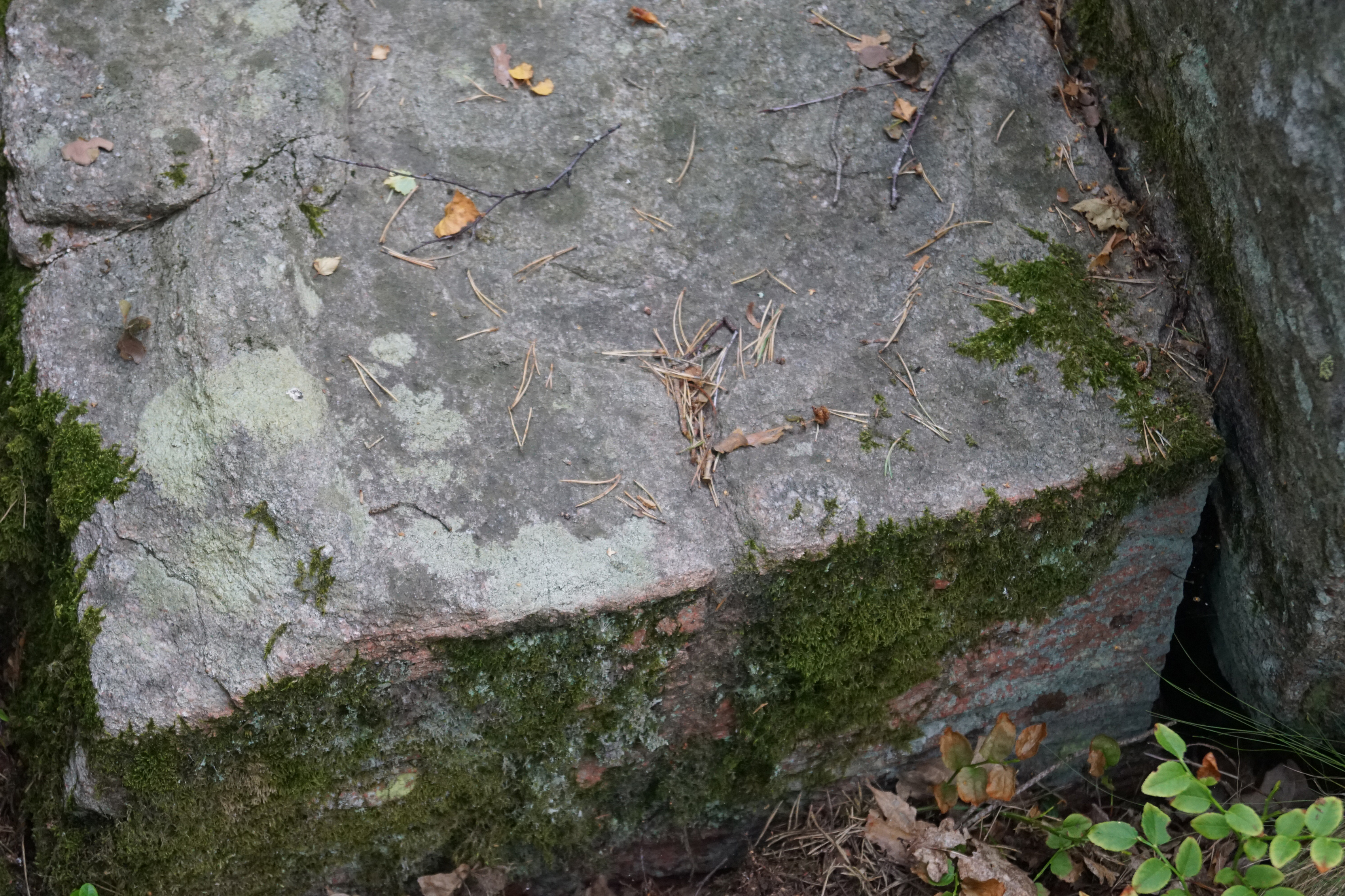 A tar stone in the wilderness Risveden in ale Municipality, Sweden. The use of tar stones was a method to burn tar for private subsistence.